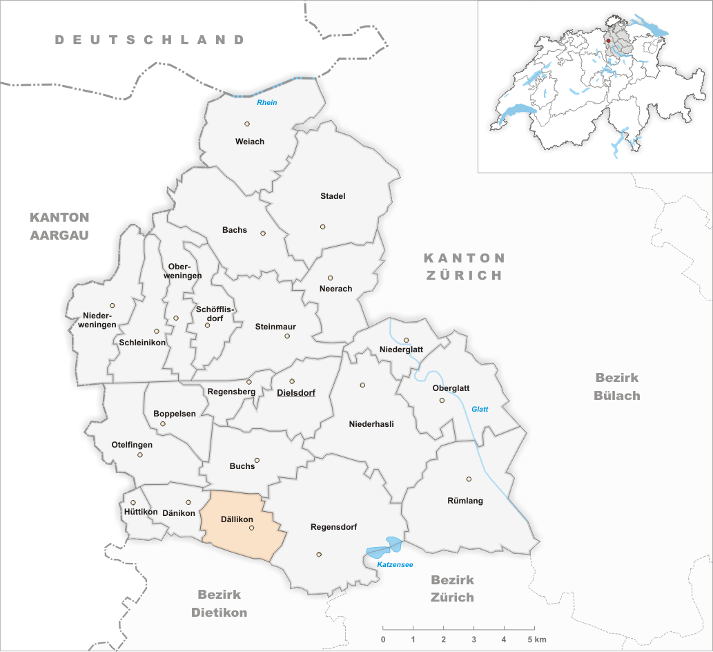 Municipality Dällikon